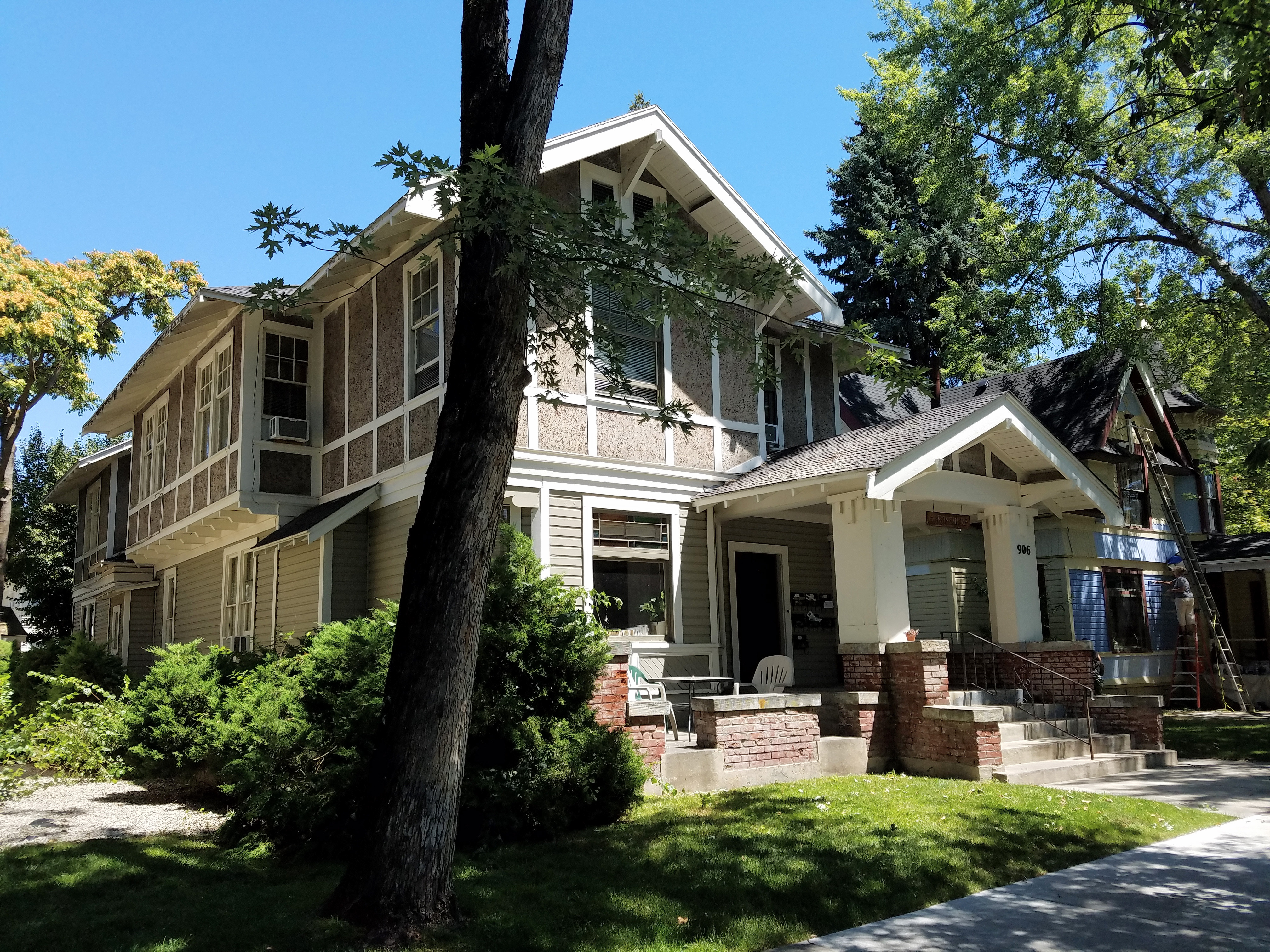 The Herbert Dunton house (1899) in Boise, Idaho, also known as the Minnie Priest Dunton house, was designed by John E. Tourtellotte and later remodeled by Tourtellotte and Hummel. The house is part of the Fort Street Historic District.